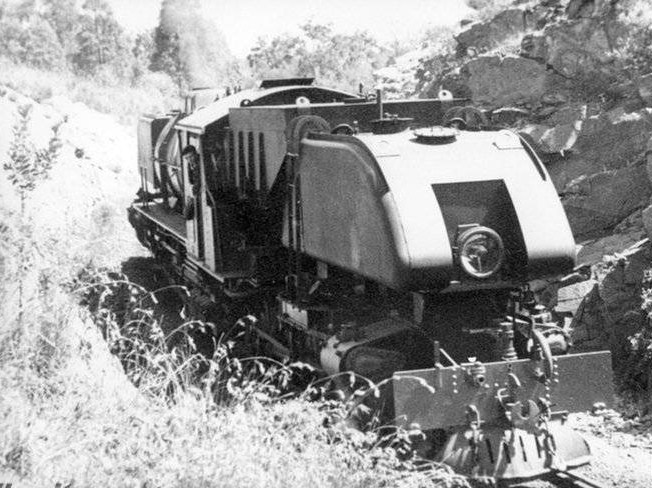 Western Australian Government Railways (WAGR) ASG class locomotive no. 55 ascending the Swan View Tunnel diversion line, with bunker leading, on the Eastern Railway at Swan View, Western Australia.